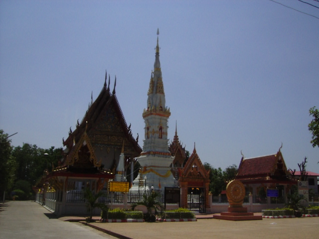 Yasothon Wat That Anon; for details on sign, see